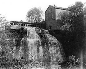 Historic photograph of the grist mill at Brandywine Falls. Notice the remains of the diversion dam above the falls. That dam diverted water to power the mill.